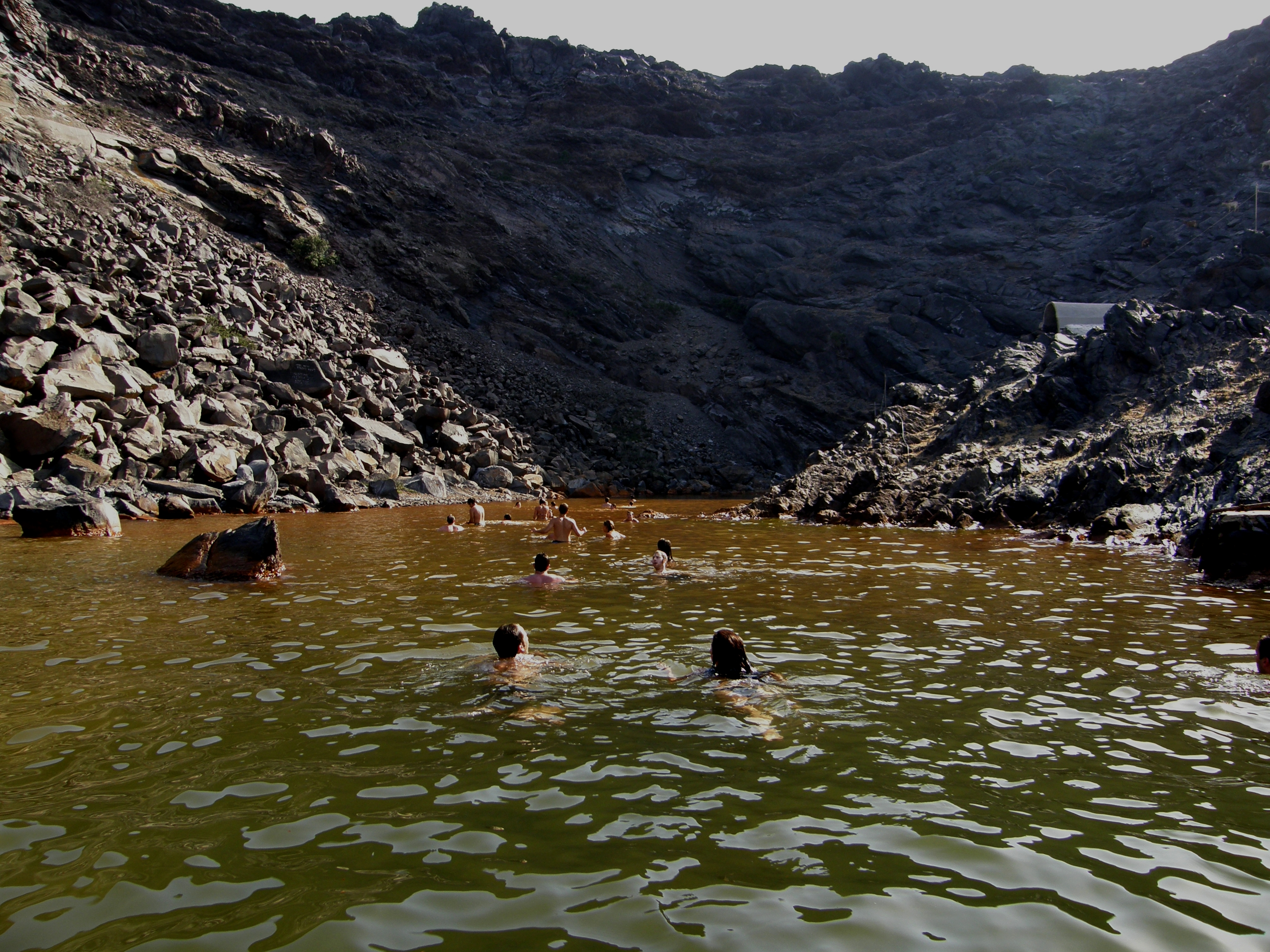 Swimming in the hot waters of Palea Kameni, one of the two volcanic islands in the middle of the caldera of Santorini... Photo of 2007... Sostis and the other inhabitants of Palea Kameni...